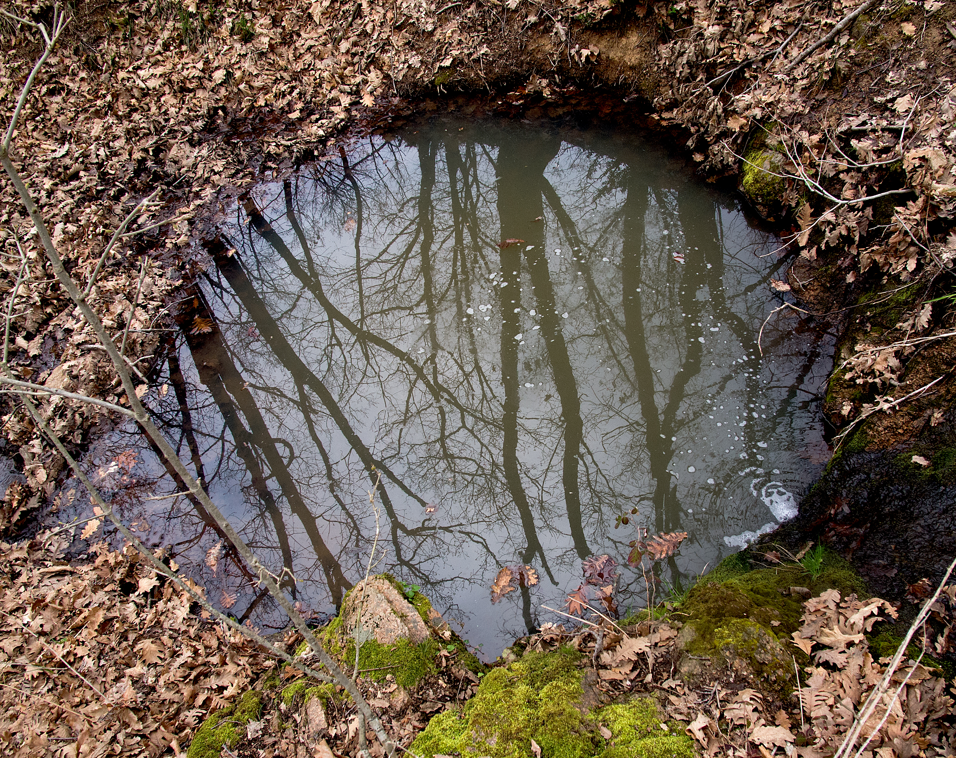 Begliktash puddle